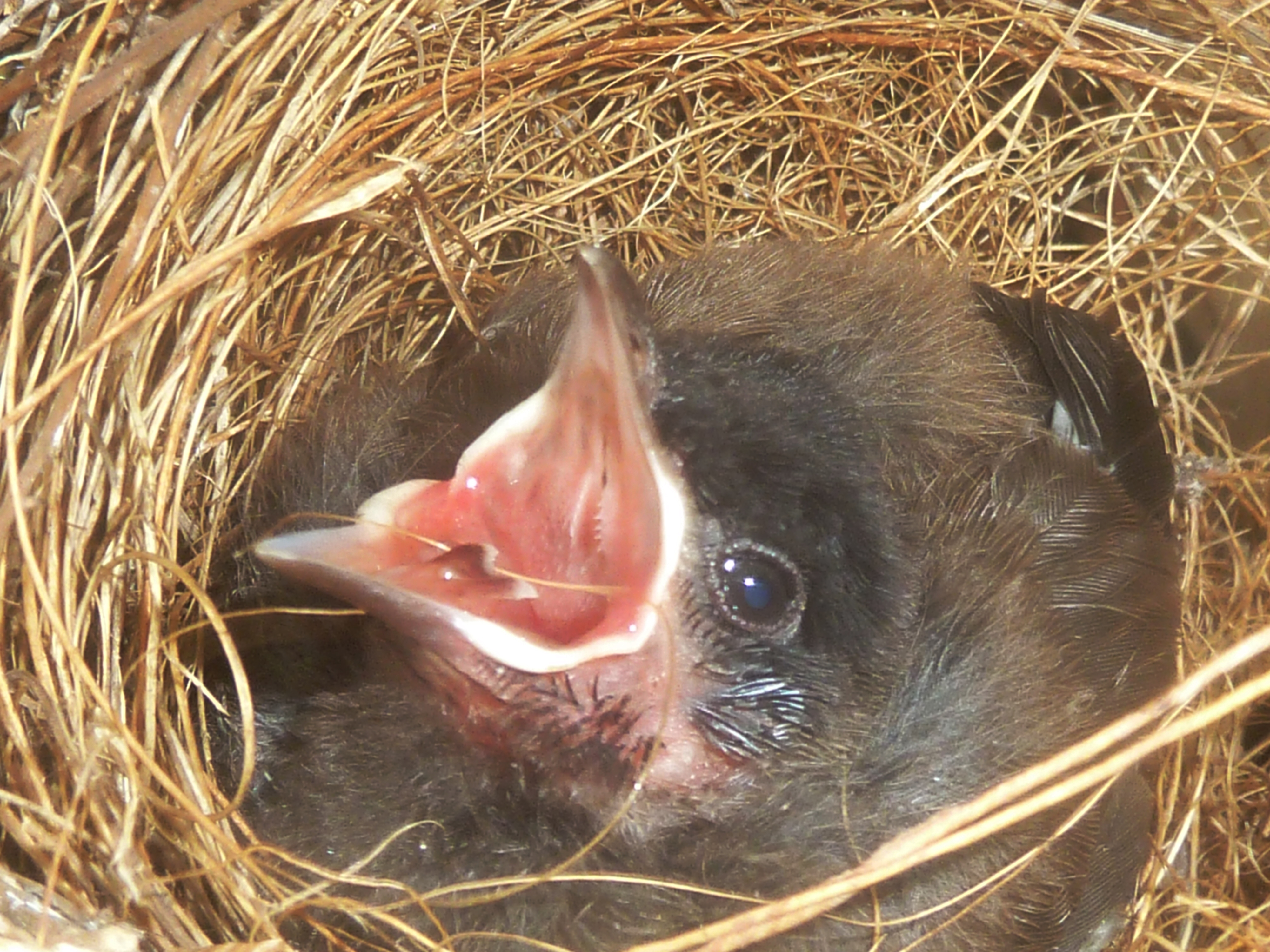 Chick of a Dark-capped bulbul, begging from nest in Pretoria, South Africa